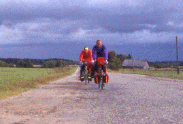 Cycling tourist group from Germany in Estonia